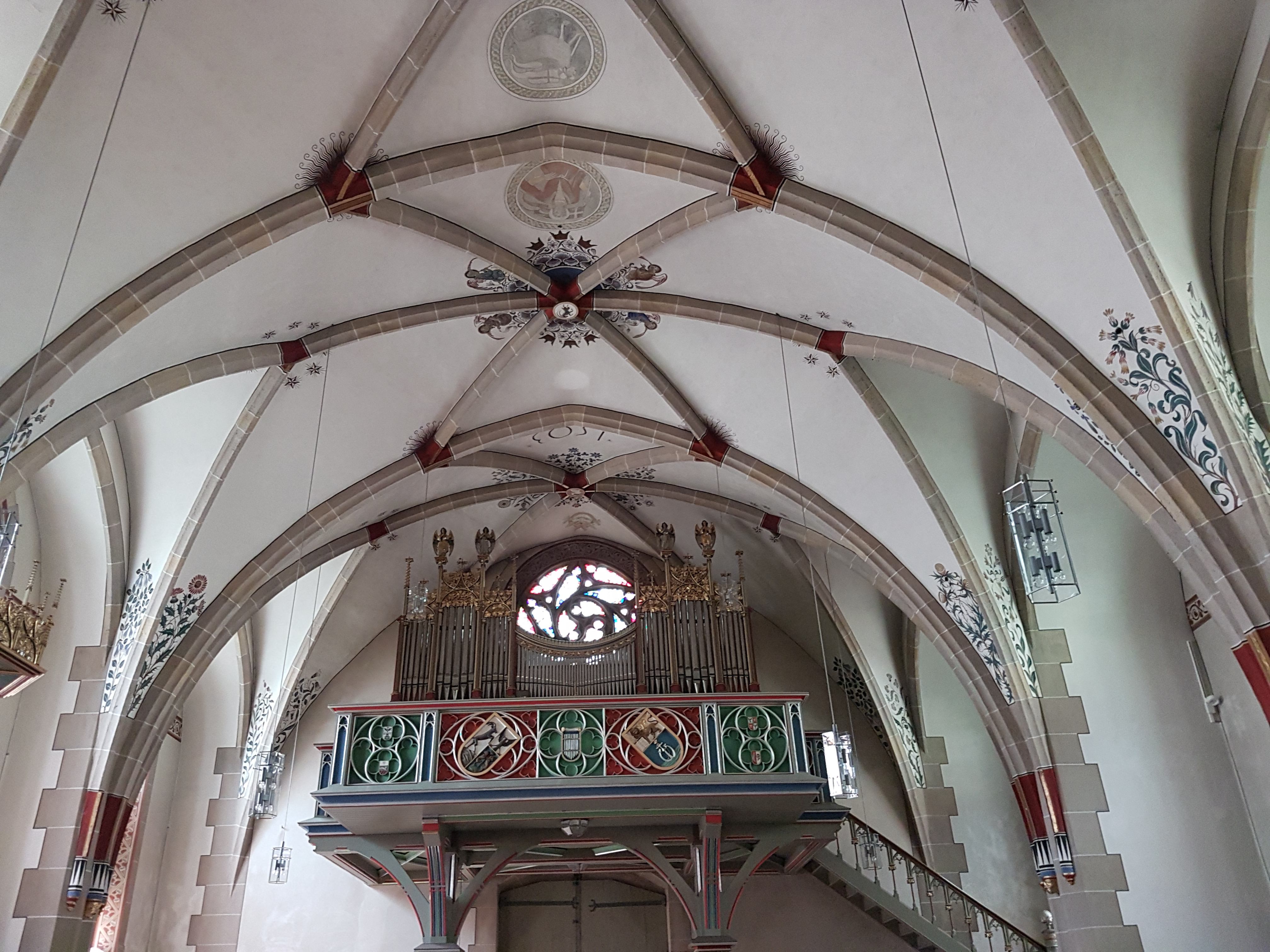 Catholic Collegiate Church of St. Victor / Chiesa collegiata cattolica di San Vittore in Poschiavo, Grisons, Switzerland. Cross vault in the nave and gallery.